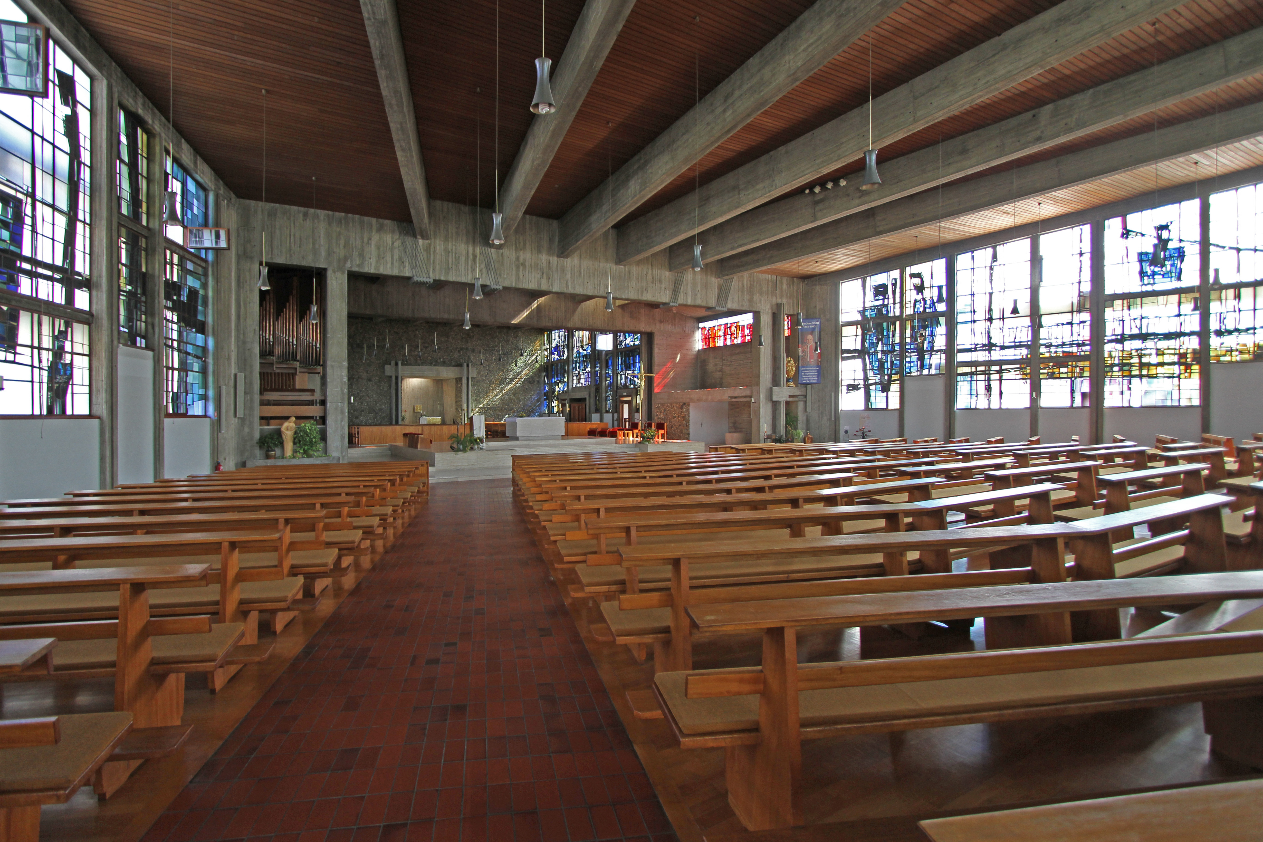 Church of St. Arbogast in Herrlisheim, interior decoration.